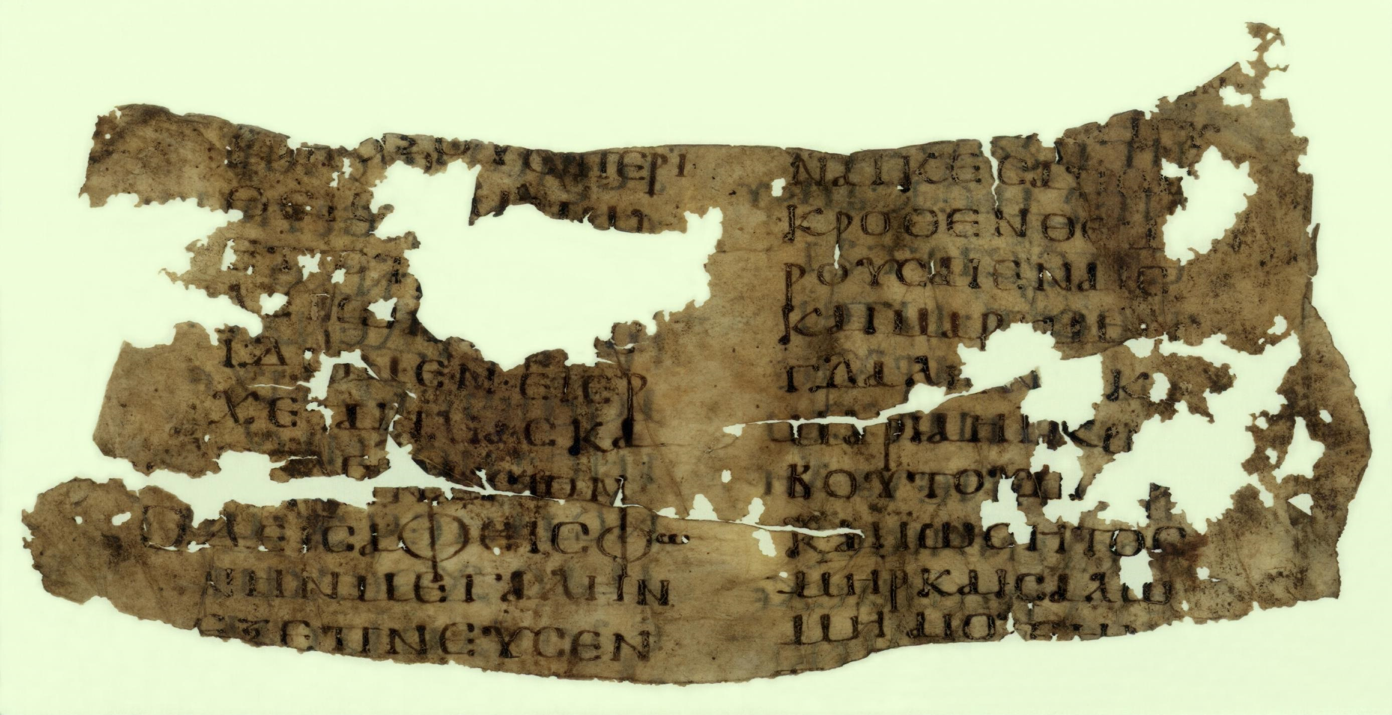 fragment of the codex with the text of Mark 15:36–37.40-41